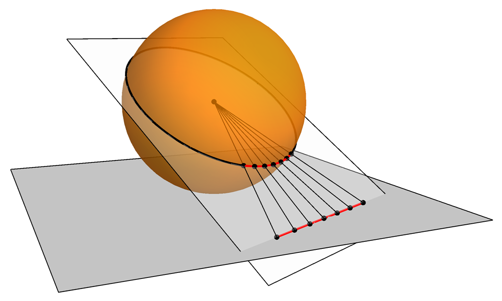 Gnomonic projection (projection from the center of the sphere)